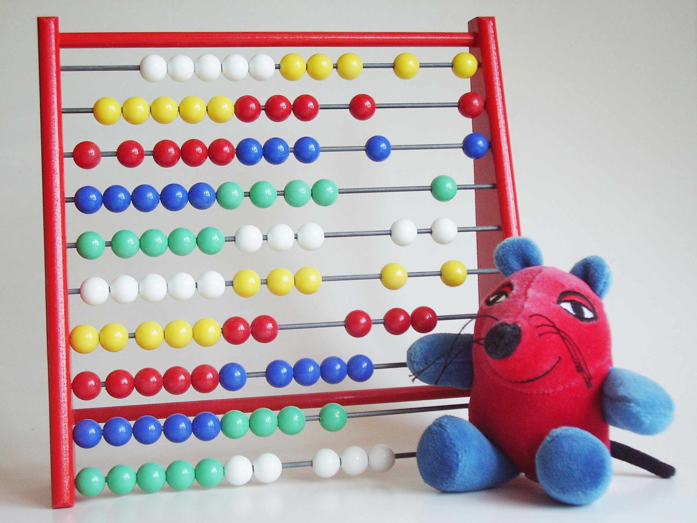 100-bit machine with mouse